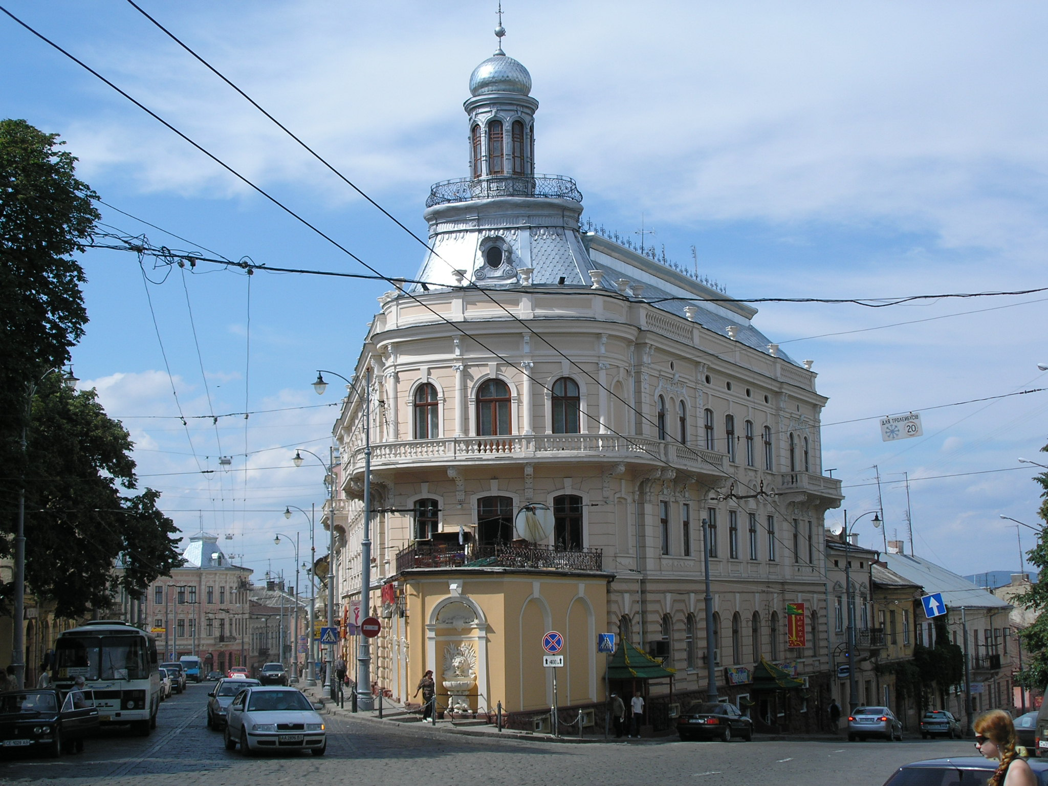 The city center of Chernivtsi, Ukraine